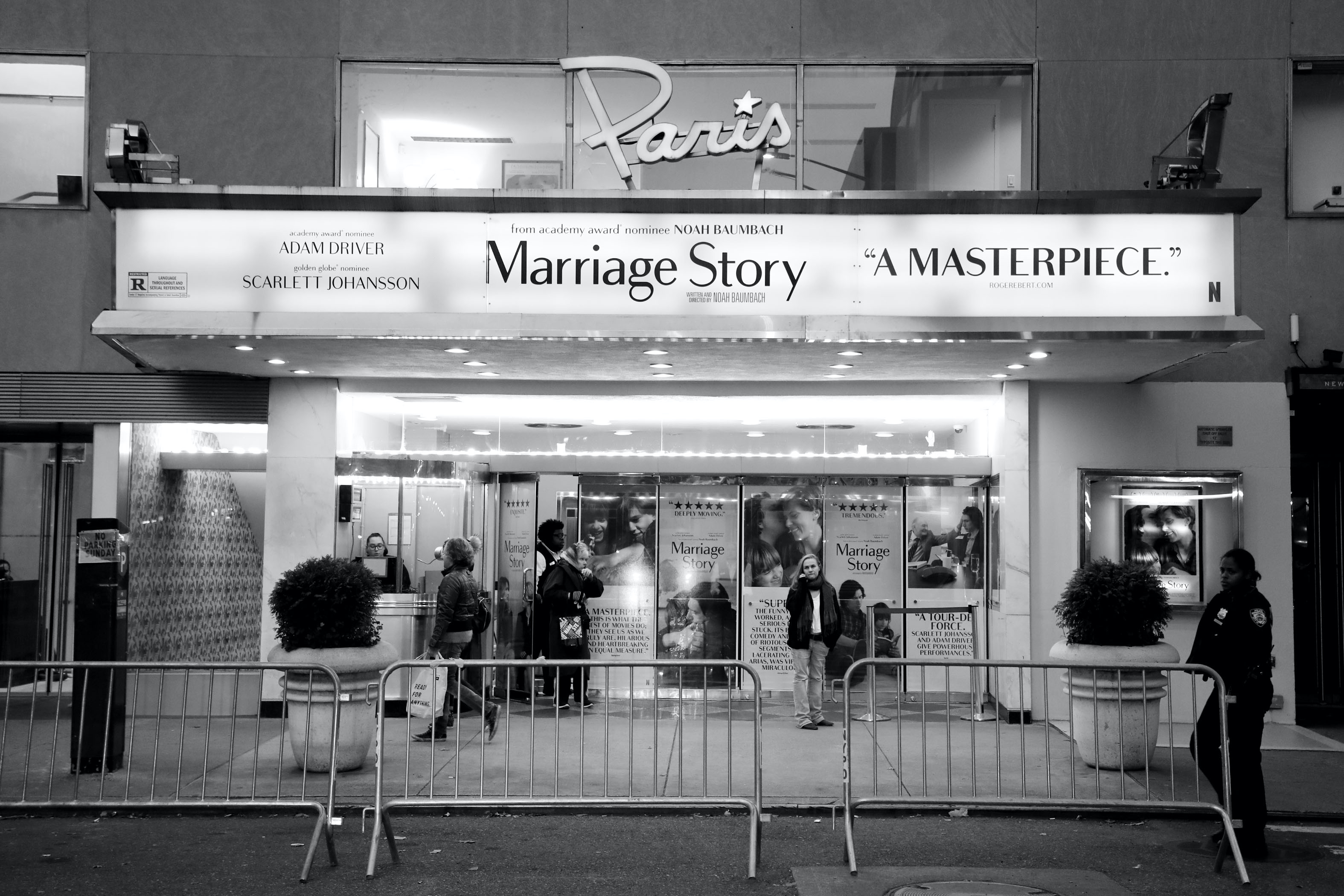 Marriage Story at the Paris Theater, Manhattan, November 2019